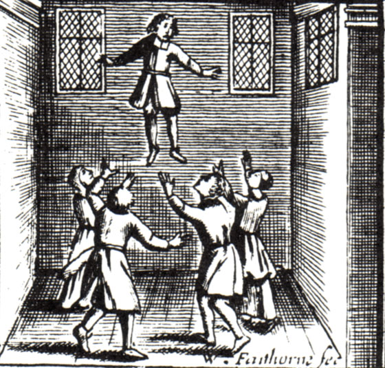 A child levitating in front of witnesses due to the influence of witchcraft. This woodcut illustration appears in the lower left corner of a frontispiece page of the book Saducismus Triumphatus authored by Joseph Glanvill and first published in 1681 in London. It is over 425 years old, making it suitable for use as a public domain image in every country.